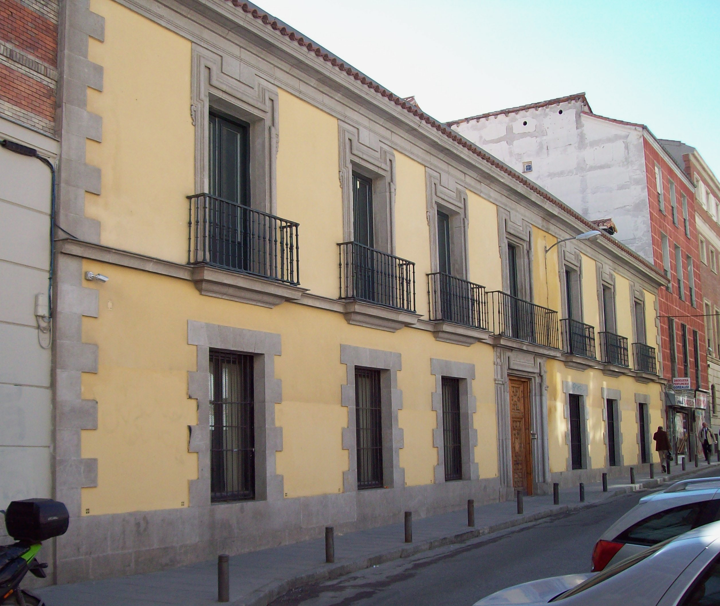 North-west façade (14 Calle de la Beneficencia, street) of the Museum of Romanticism in Madrid (Spain), at 13 Calle de San Mateo (street) in Centro district. Building was projected by Manuel Martín Rodríguez and built in the last quarter of the 18th century as a palace for the marquis of Matallana.